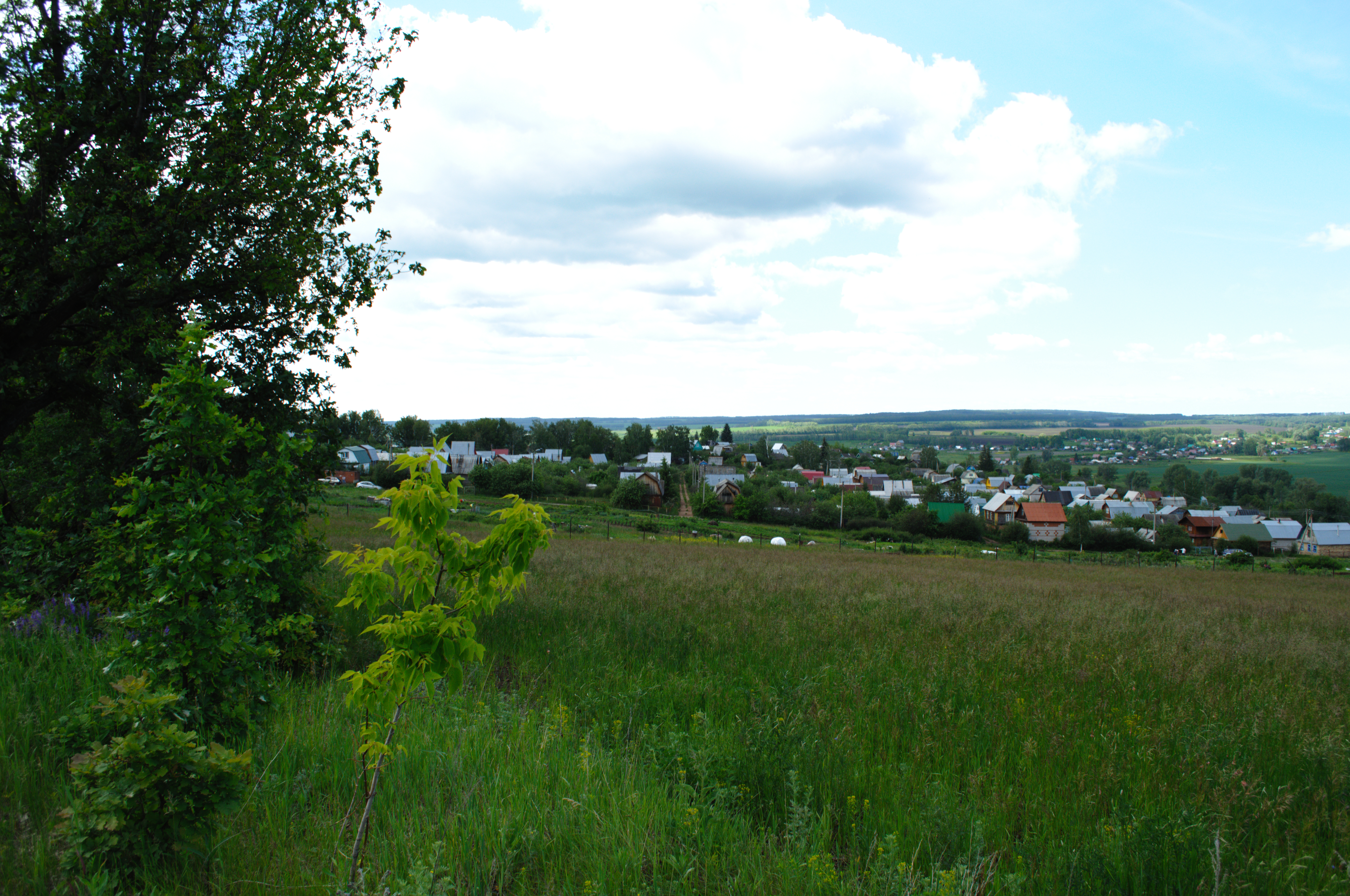 2011, around Ufa town, "Pionerskaya" railway station